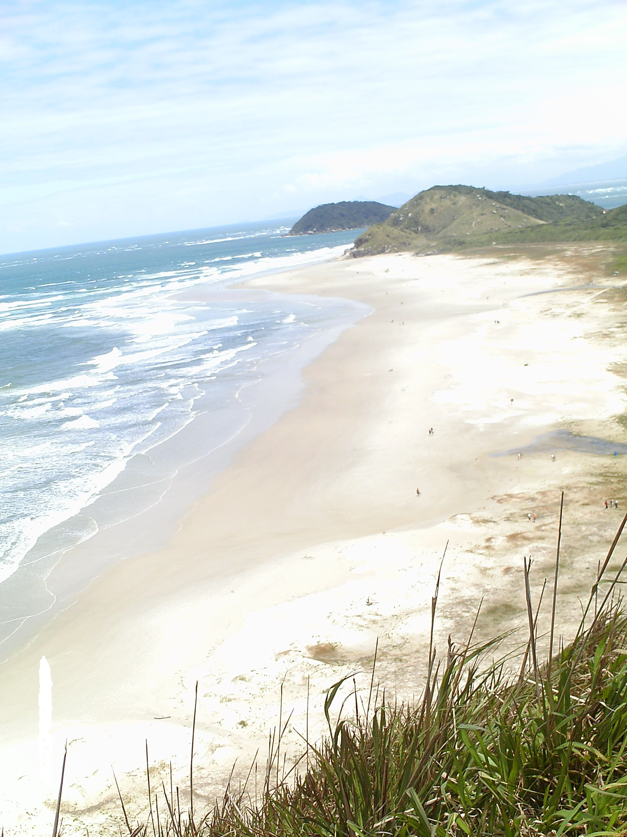 A beach in Ilha do Mel, Paraná, Brazil